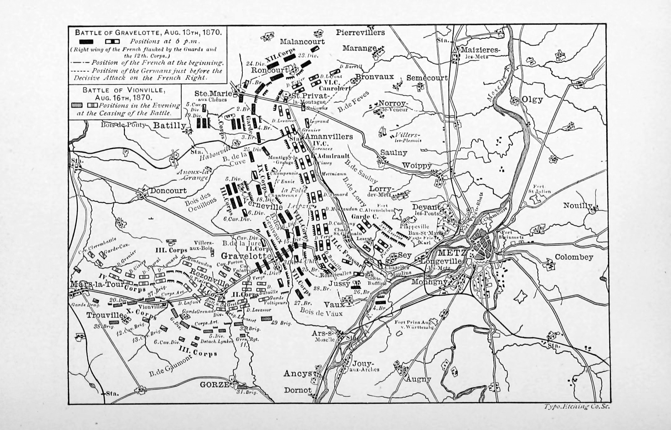 Image extracted from page 296 of The Refounding of the German Empire, 1848-1871 ... With portraits and plans', by MALLESON, George Bruce. Original held and digitised by the British Library. Copied from Flickr. Note: The colours, contrast and appearance of these illustrations are unlikely to be true to life. They are derived from scanned images that have been enhanced for machine interpretation and have been altered from their originals.